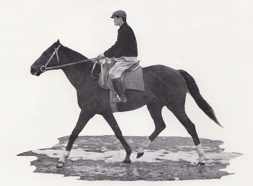 british racehorse Gay Time.